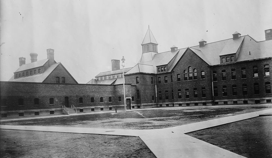 Matteawan Asylum for the Criminally Insane (NY)